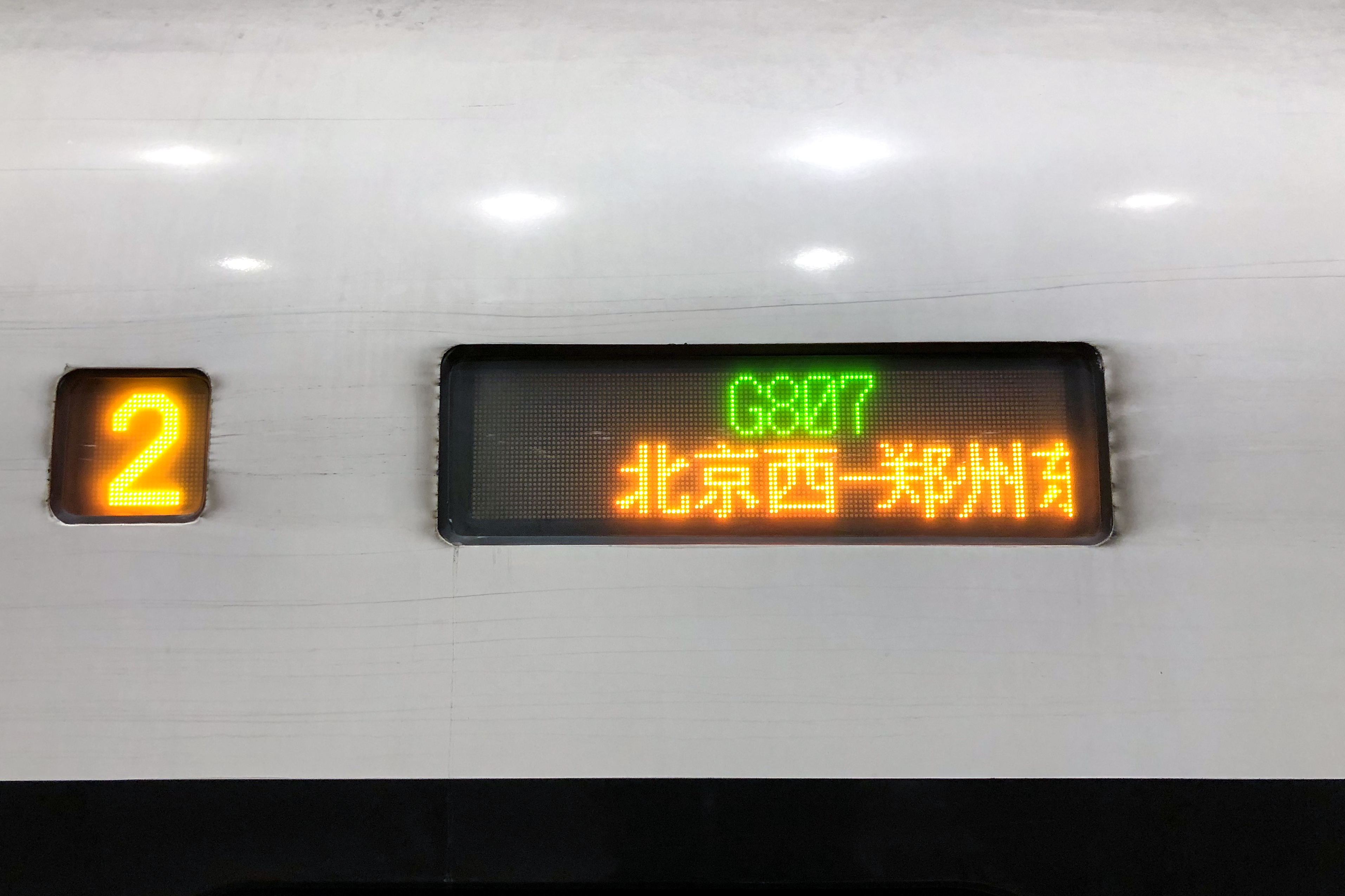 To Zhengzhou East Station only, since 28 December 2017. But this train has an advantage: non-stop!